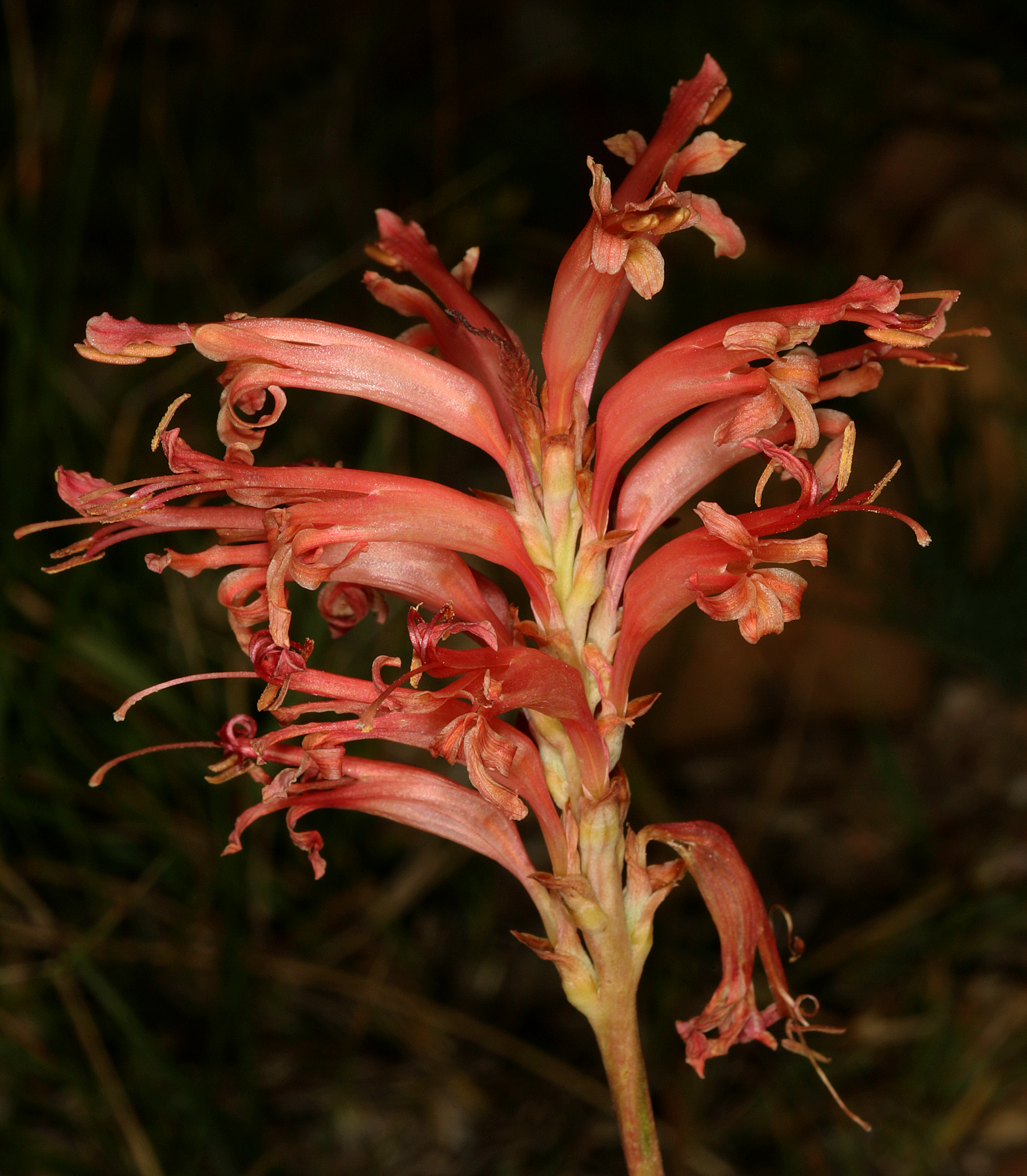 Tritoniopsis antholyza, inflorescence; between Pringle Bay and Steenbras River Bridge, Kogelberg Biosphere Reserve, Western Cape, South Africa